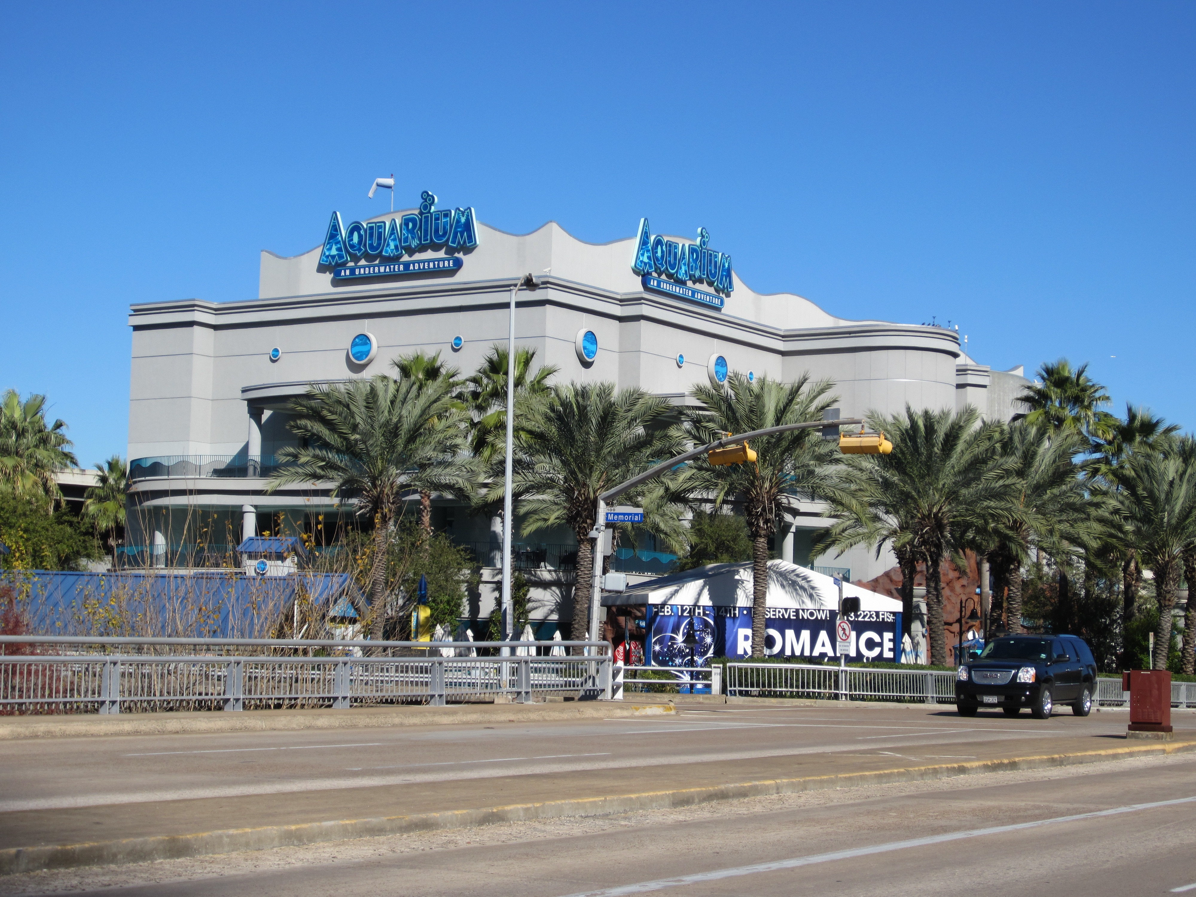 Downtown Aquarium in Houston, Texas in January 2012